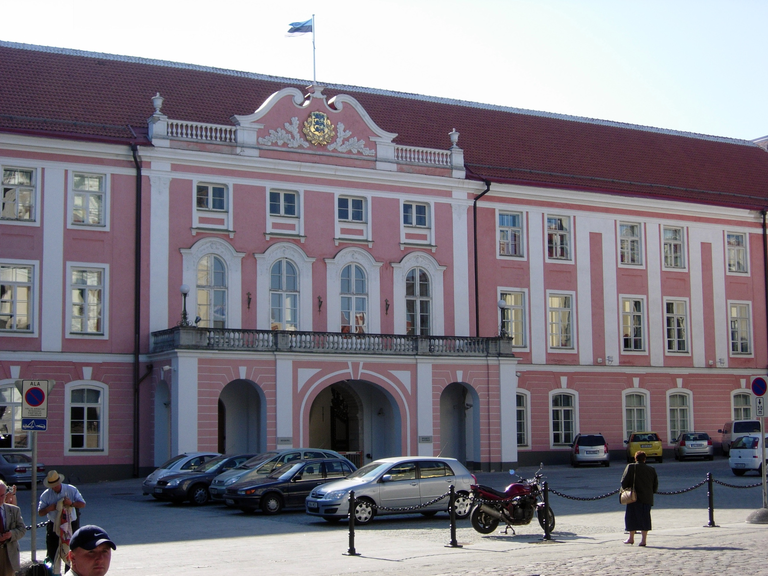 The parliament building of Estonia, in Tallinn